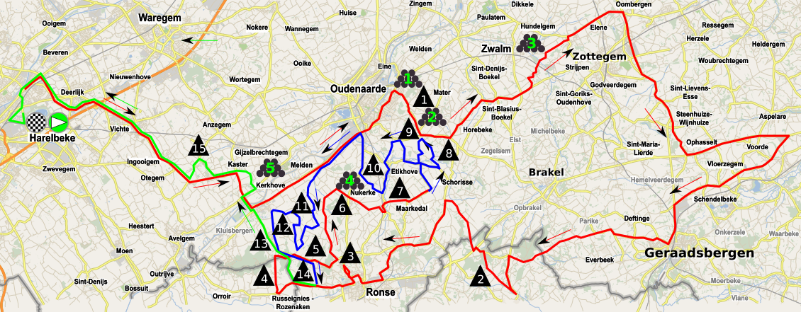 Circuit of E3 Harelbeke 2016.